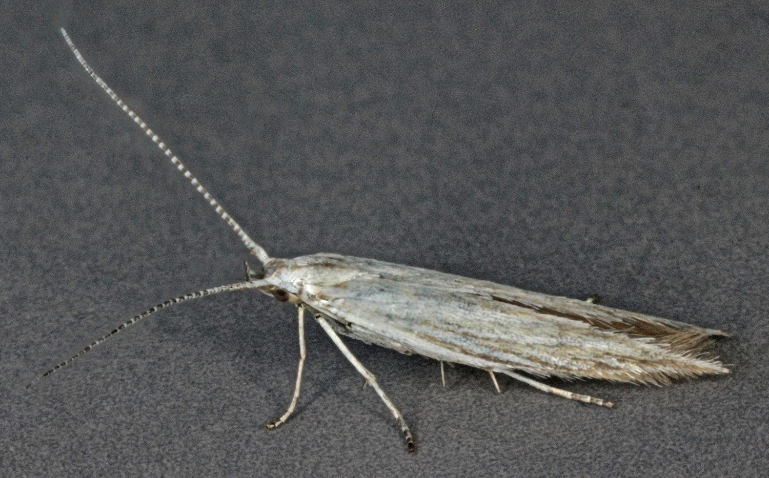 Coleophora striatipennella, Minera, North Wales, June 2014